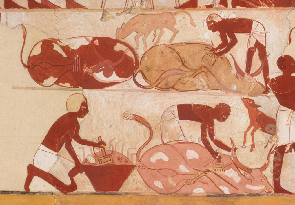 Facsimile, Nebamun (TT 90), estate activities